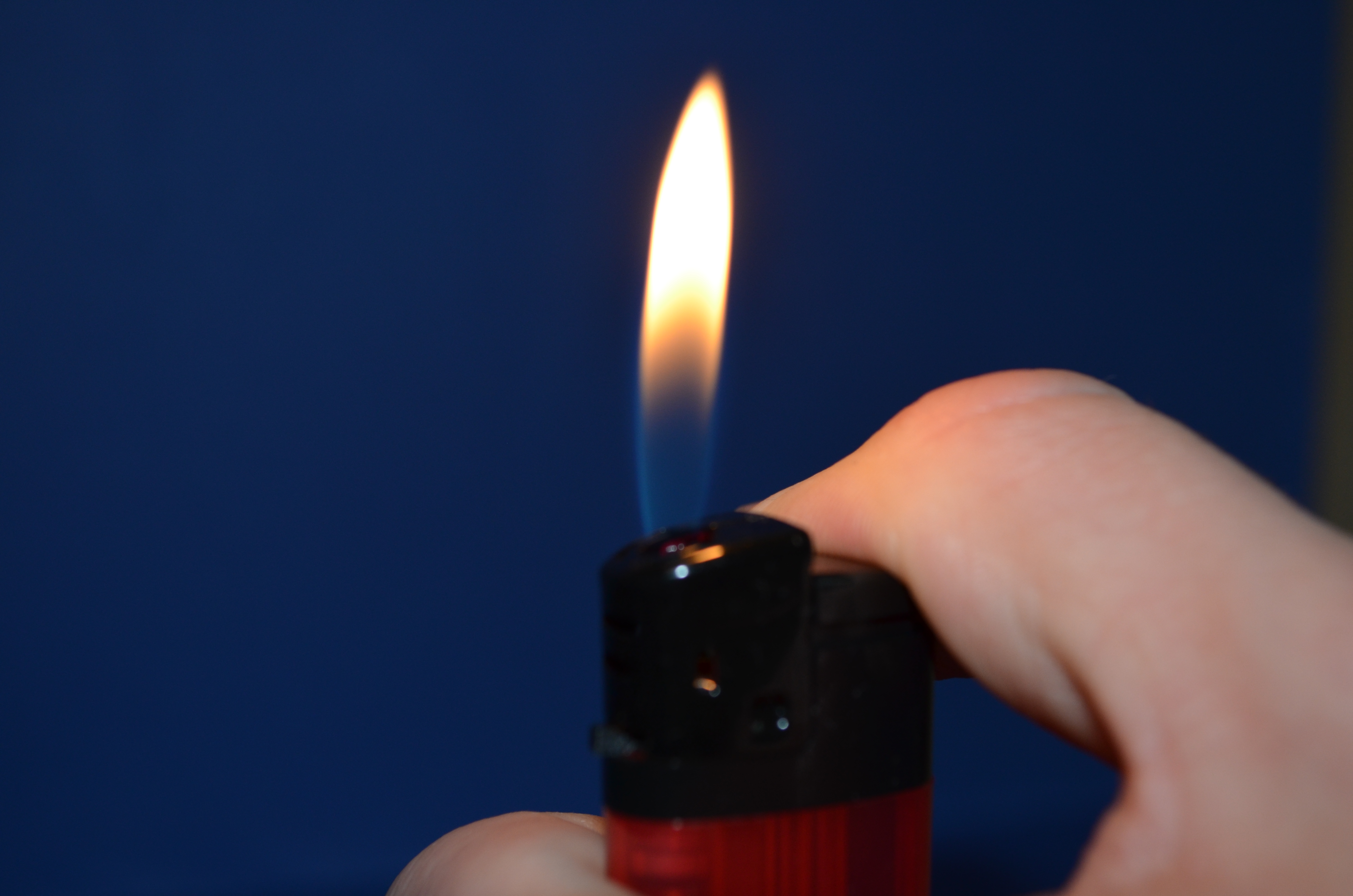 butane